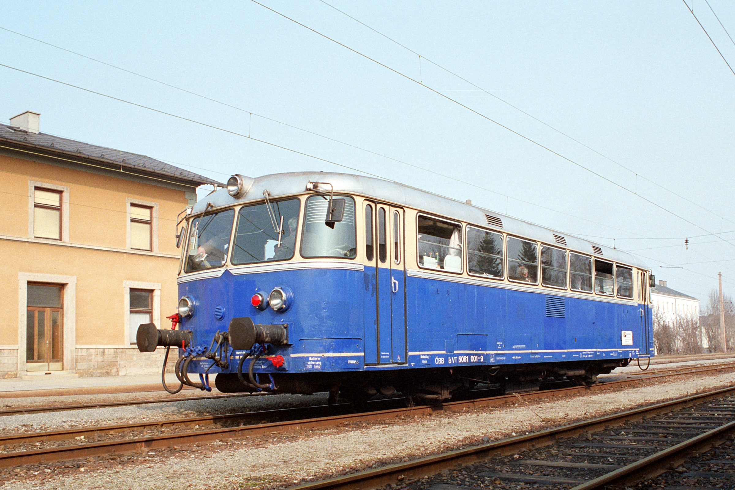 ÖBB Railbus 5081.01, the first of three units built by Uerdingen for the Austrian federal railways